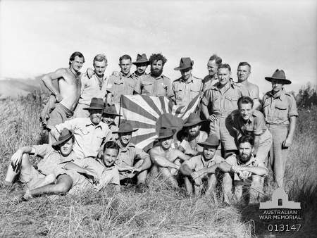 AWM description: NEW GUINEA, 1942-08-28. MEMBERS OF B COMPANY, NEW GUINEA VOLUNTEER RIFLES, PROUDLY DISPLAY A JAPANESE FLAG THEY CAPTURED AT MUBO ON 1942-07-21. PERSONNEL ARE (RANK IS RIFLEMAN UNLESS STATED OTHERWISE) BACK ROW FROM THE LEFT, NG2423 G.R. ARCHER, NG2192 J. CAVANAUGH, NG2200 SERGEANT L.E. ASHTON, NG2230 H.M. SHUTT, NG2214 J.G. KINSEY, NG2113 F.L. LEATHER, NG2191 SERGEANT J.B. McADAM, NG2231 S.F. BURNS, NG2114 I.H. PATTERSON, NG2068 J.C.SHAY; CENTRE ROW, NG2461 R. NAPIER, NG2234 C.L. CAVALIERI, NG2380 A.R. SHEATH (BENDING OVER); FRONT ROW, NG2201 CORPORAL J.A. BIRRELL, NG2219 H.L. HARRIS, NG2022 CORPORAL A.McA. GRAHAM, NG2229 R.W. DOYLE, NG2211 SERGEANT H.J.W. FARR, NG2325 W. ALLEN AND NG2047 CORPORAL G.R. RAYNER. (NEGATIVE BY D. PARER)